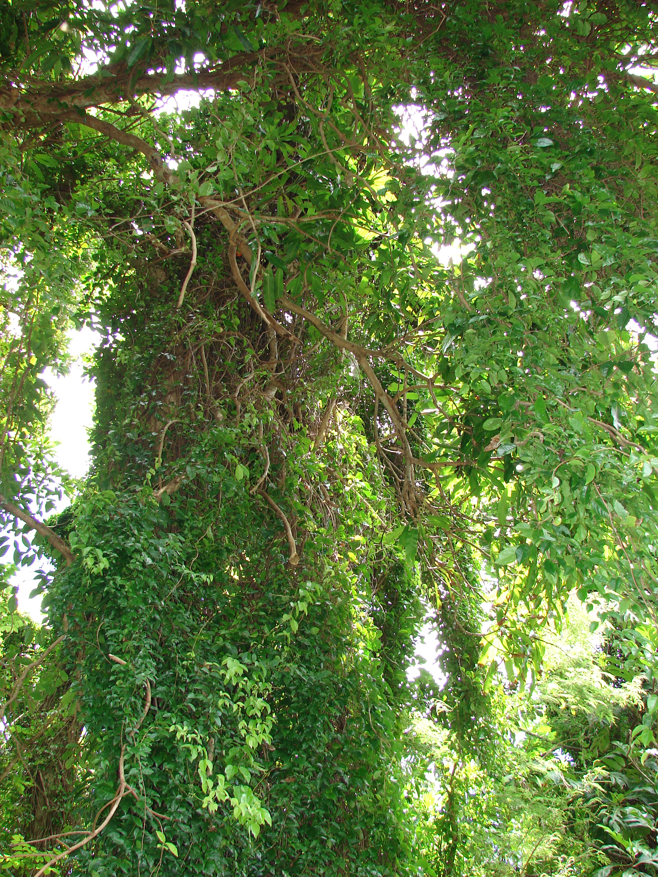 Macfadyena unguis-cati (climbing up tree). Location: Maui, Hana